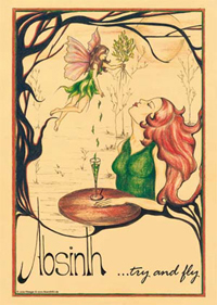 Modern art absinthe picture of the Green Fairy.